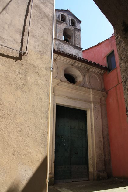 church of Saint Anne